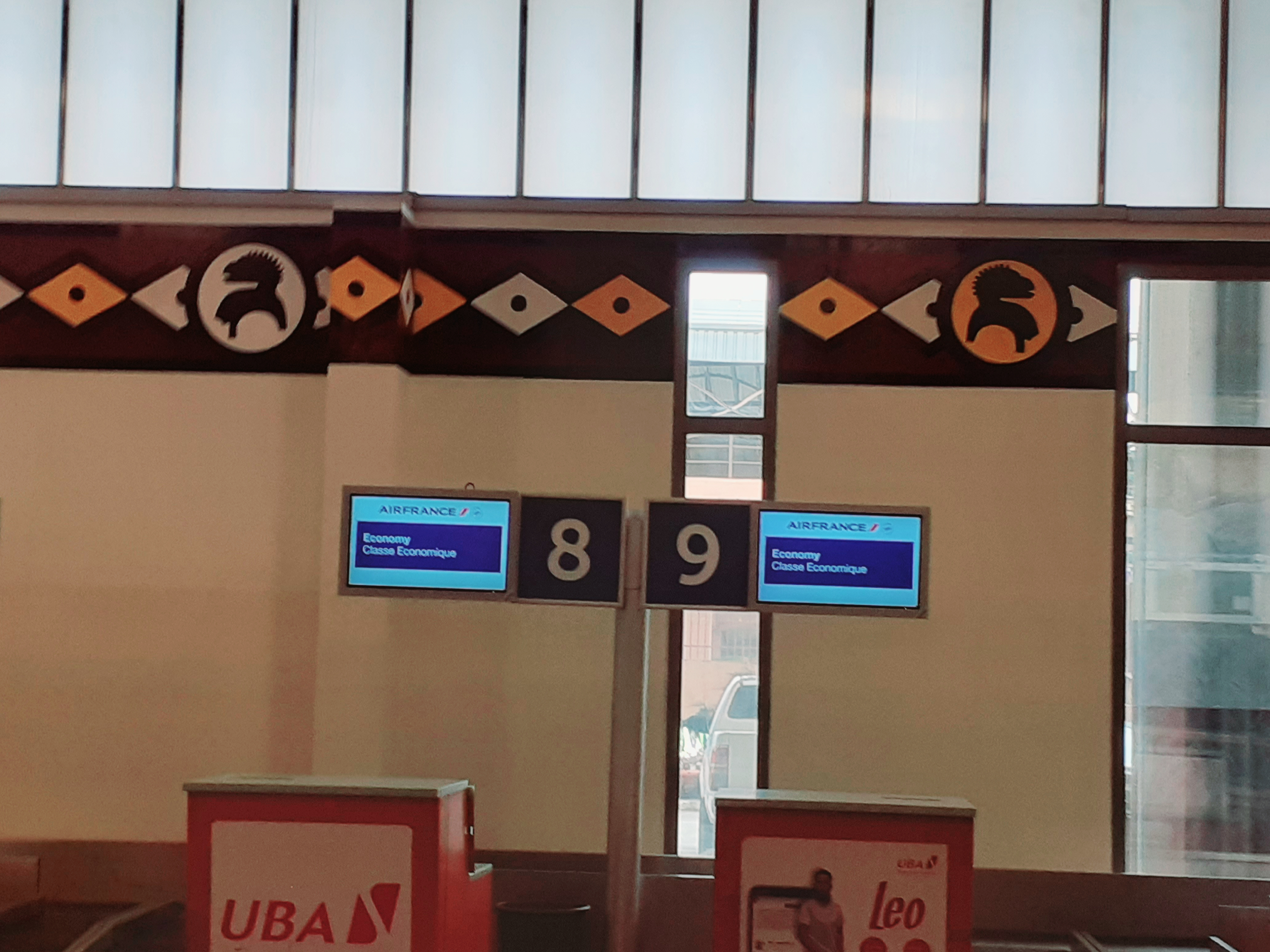 Salle d'enregistrement de l'aéroport international de Conakry